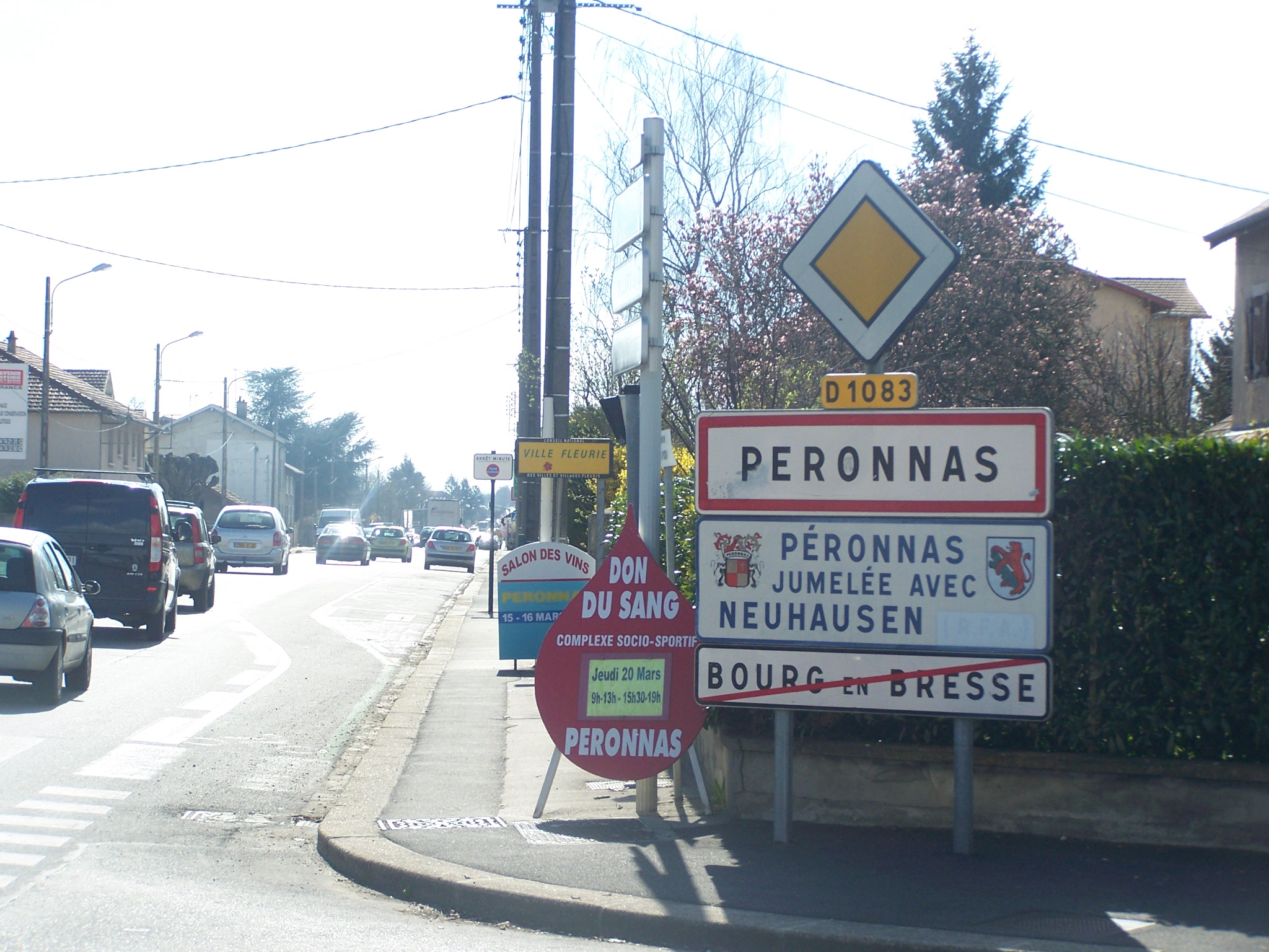 Sign welcoming visitors to the French commune of Péronnas when leaving Bourg-en-Bresse (capital of the Ain department).